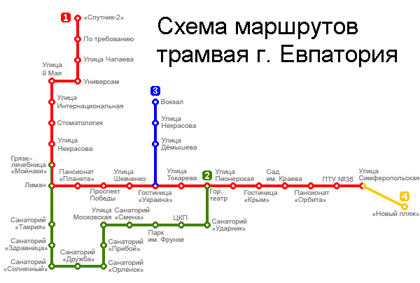 Yevpatoria tram routes map